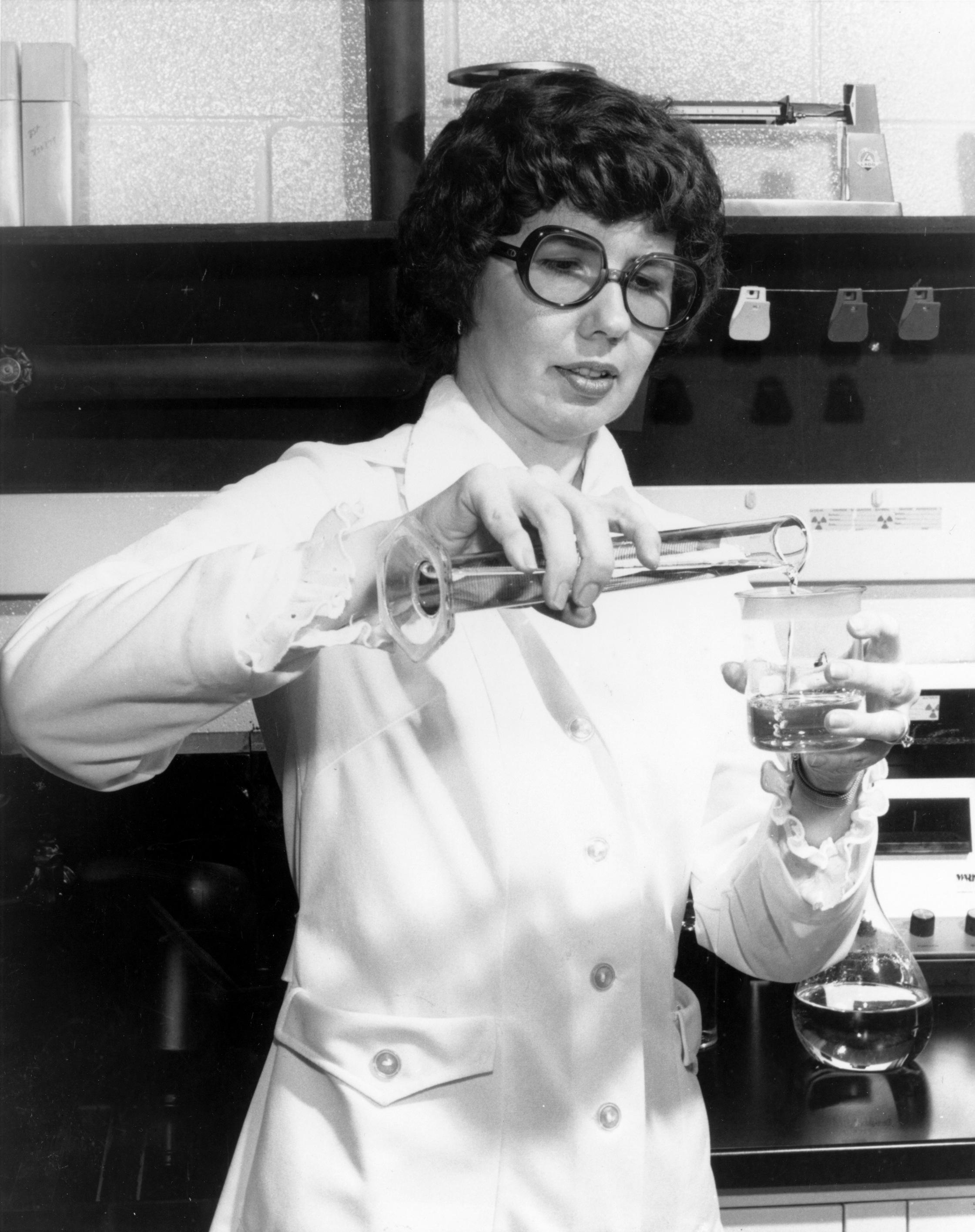 NASA hired Barbara S. Askins, a chemist at NASA's Marshall Space Flight Center, Huntsville, Alabama, in 1975 to find a better way to develop astronomical and geological pictures. In 1978, the Association for Advancement of Inventions and Innovations named her the National Inventor of the Year for her invention of a process that restored detail to underexposed negatives that would otherwise be useless. In 1978, Barbara Askins patented a method of enhancing the pictures using radioactive materials. The process was so successful that its uses were expanded beyond NASA researchers to improvements in X-ray technology and in the restoration of old pictures.